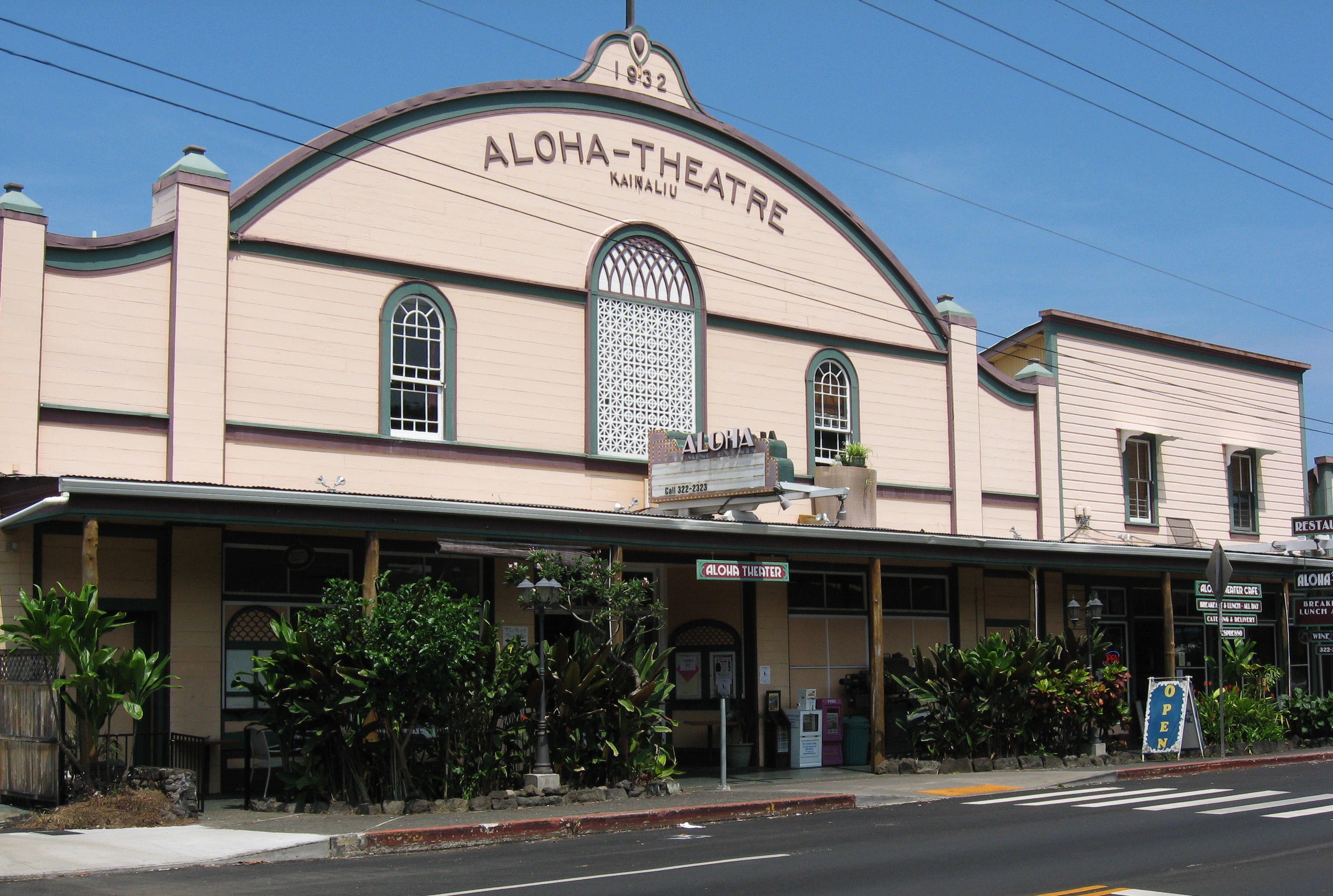 The theater in Kainaliu, Hawaii County, Hawaii was originally called the Tanimoto after the family who operated it, when it opened in 1832. It showed both American and Japanese films. It is now the home of the Aloha Theater Cafe, and the Aloha Performing Arts company.